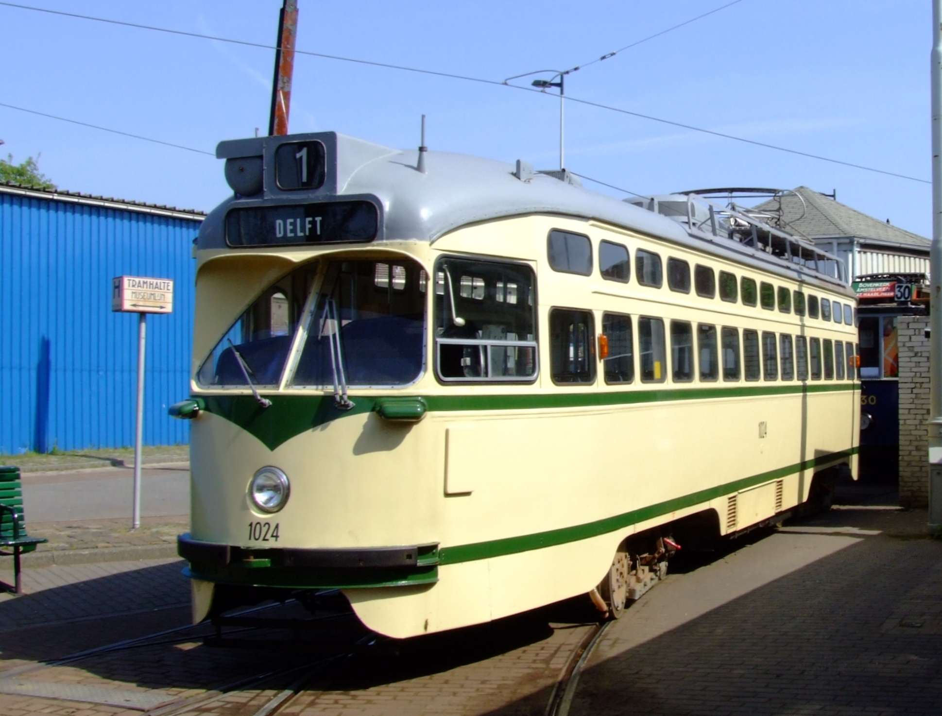 Part of the Electrische Museumtramlijn Amsterdam collection. Museum tram 1024